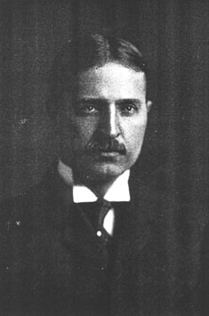 Samuel P. Bush,Father of Senator Prescott Bush